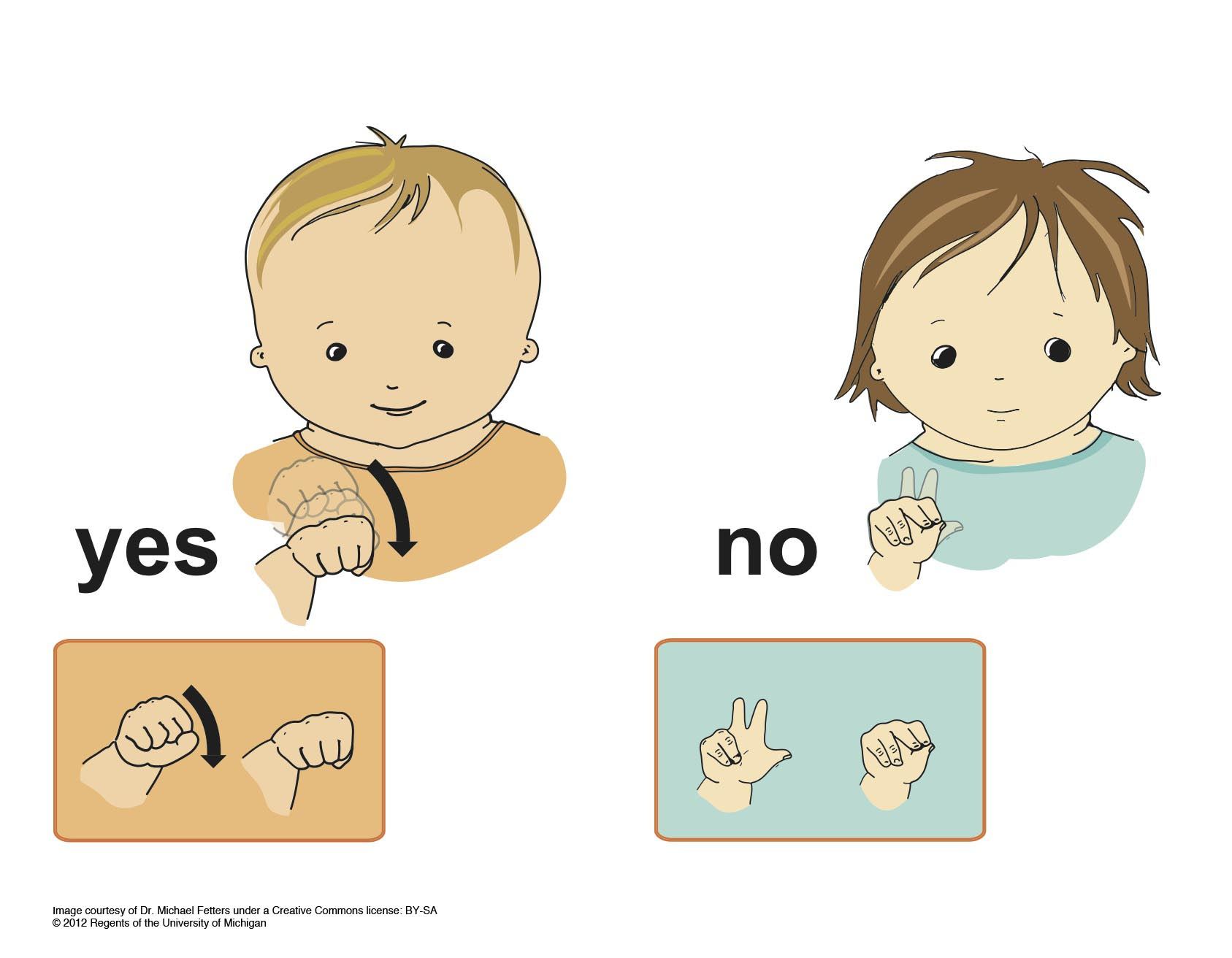 Yes no en. Signing is a tool for babies to communicate with their caregivers before they can speak. Developmentally, babies can use their hands to communicate much earlier than they can make meaningful words.